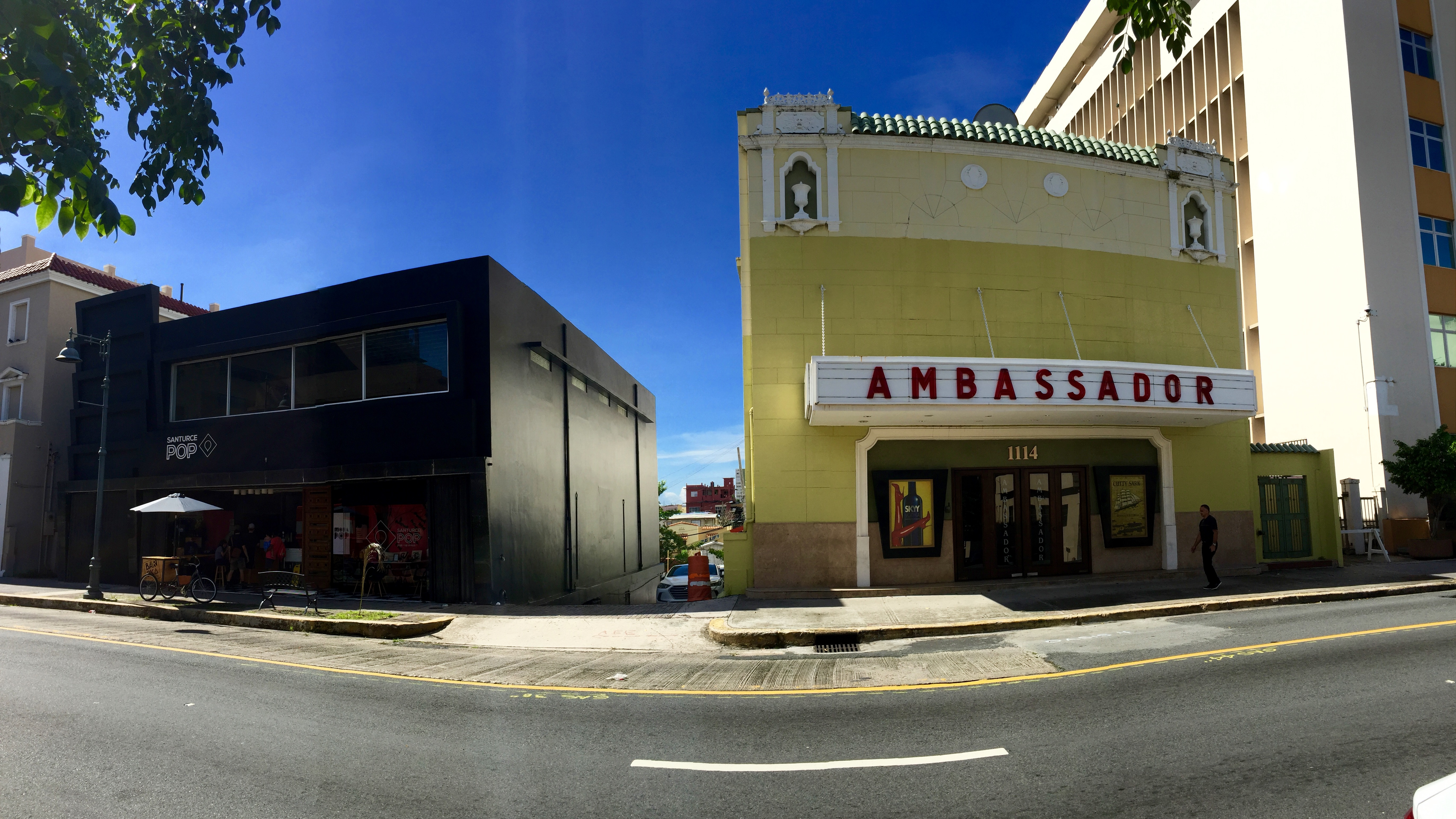 Built during the 1940’s the 500-seat Teatro Venus specialized in B-movies. During its early years, it was the place where kids went to see "Abbott and Costello" movies. During the 1960’s and 1970’s it changed to exploitation fare and was re-named Teatro Ambassador. It was the place to see women in prison films, AIP and Hammer horror flicks and even the infamous "Ilsa" movies. Trending Santurce Pop and Baraka coffee on the left.